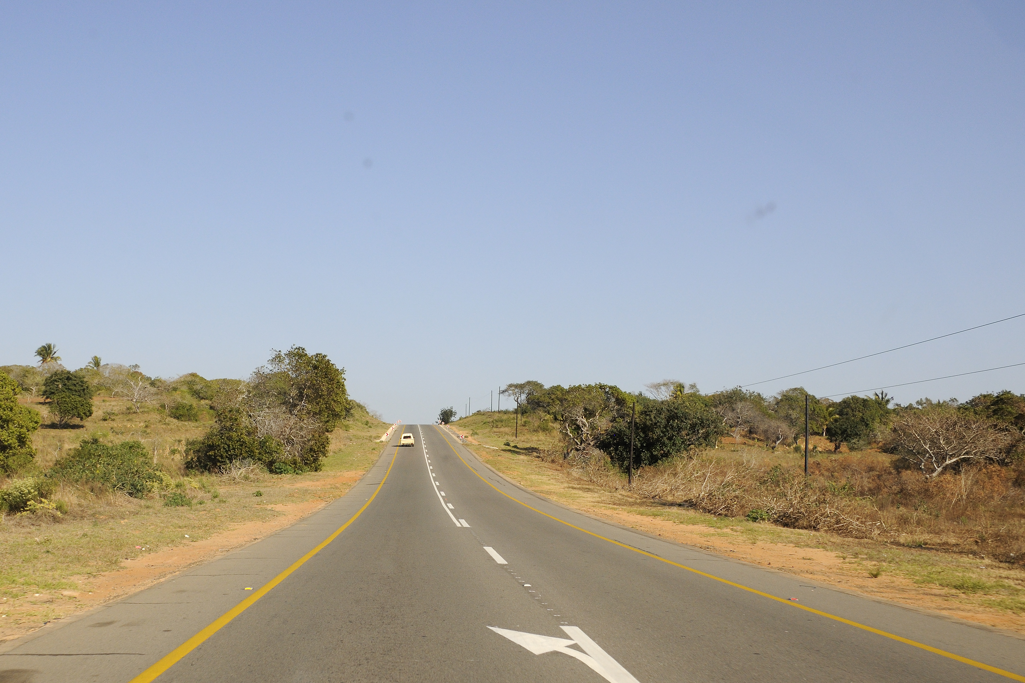 EN1 highway close to Xai-Xai, Gaza, Mozambique